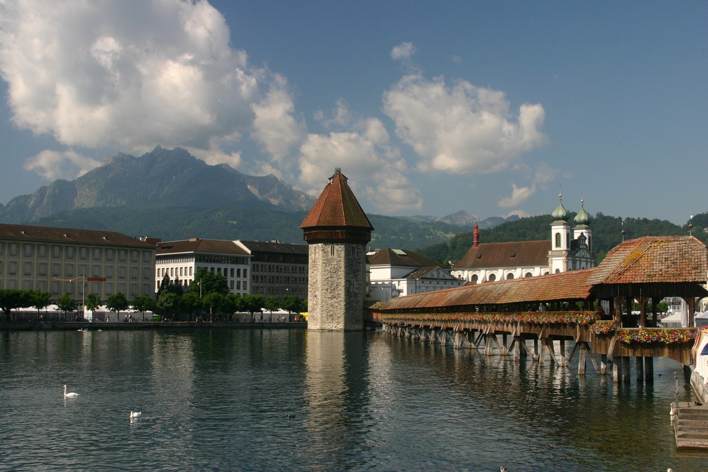 Kapellbrücke, Lucerne - the ensemble of the bridge and the old tower is one of the major landmarks of the town. The Pilatus mountain and the Jesuit church can be seen in the background.